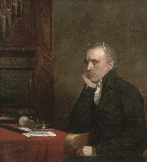 Portrait of Benjamin Flight (1767-1846), seated at a table by an organ.